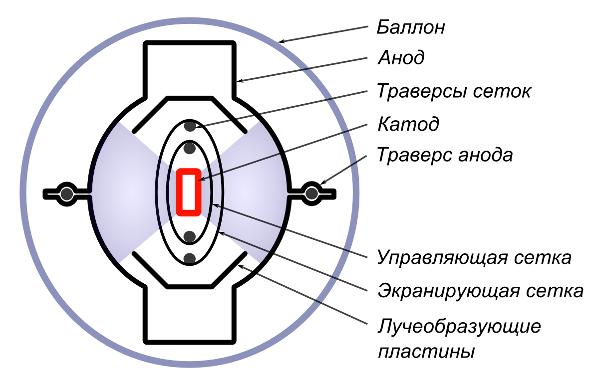 Inside the 6L6(glass) beam tetrode